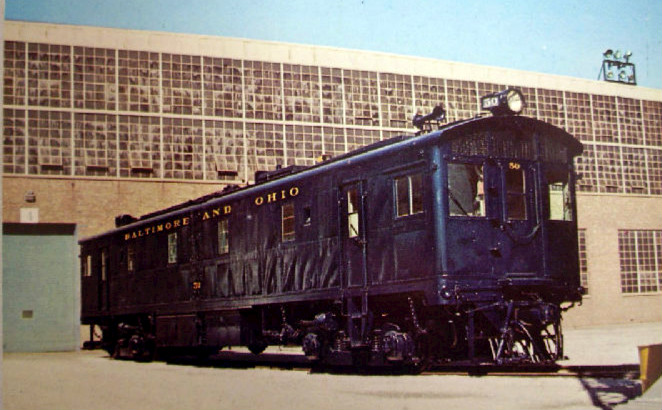 Postcard photo of Baltimore and Ohio's number 50 diesel locomotive with the streamlining it had as The Abraham Lincoln removed. This is the way the locomotive is seen at the National Museum of Transport in St. Louis. The locomotive is at the Electro-Motive plant in LaGrange/McCook Illinois, where it was built in 1935. It was brought to the plant from the museum for a celebration of Electro-Motive's 50 years in the locomotive business in 1972.